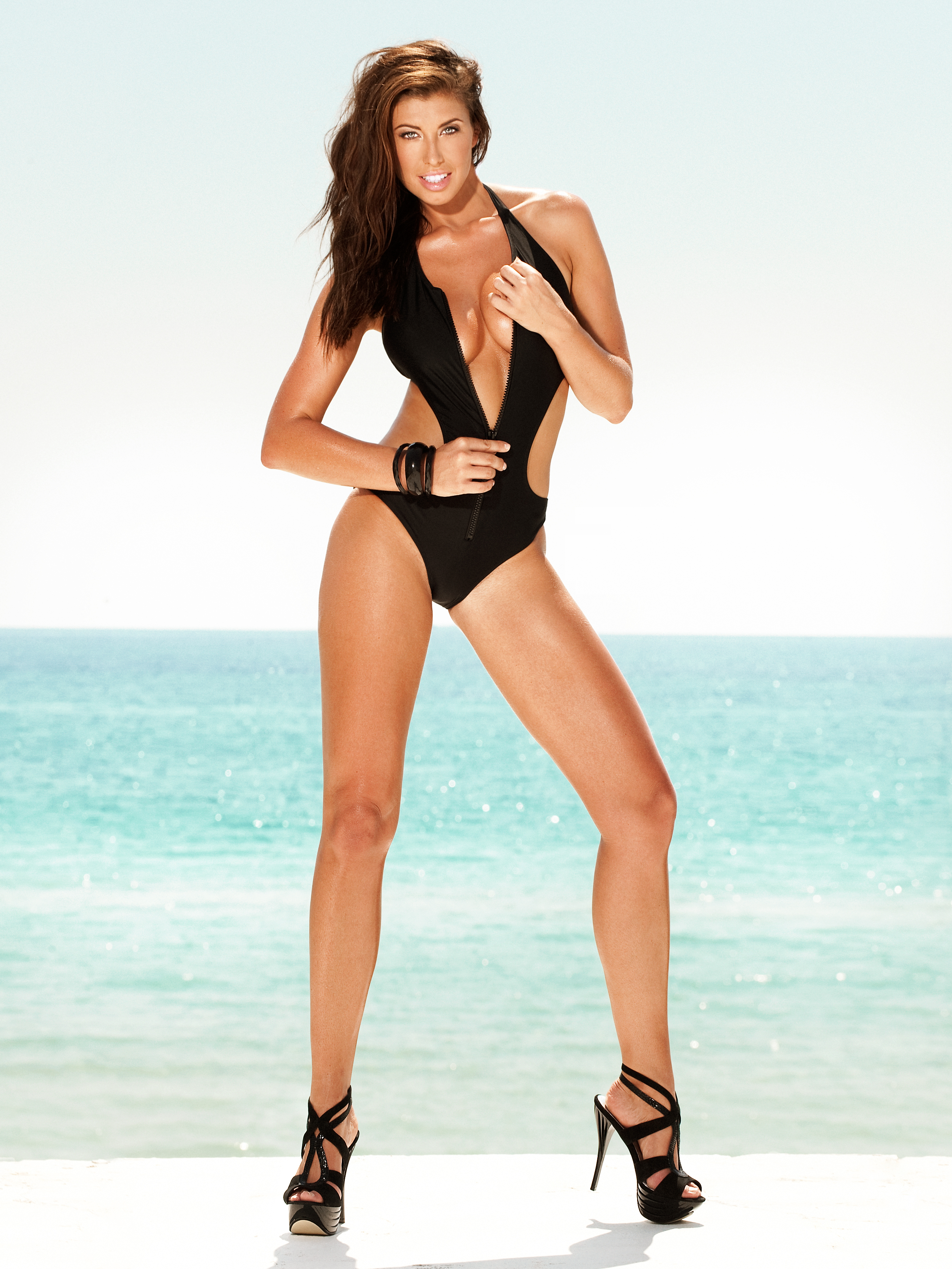 Maria Eriksson in Miami, Florida.